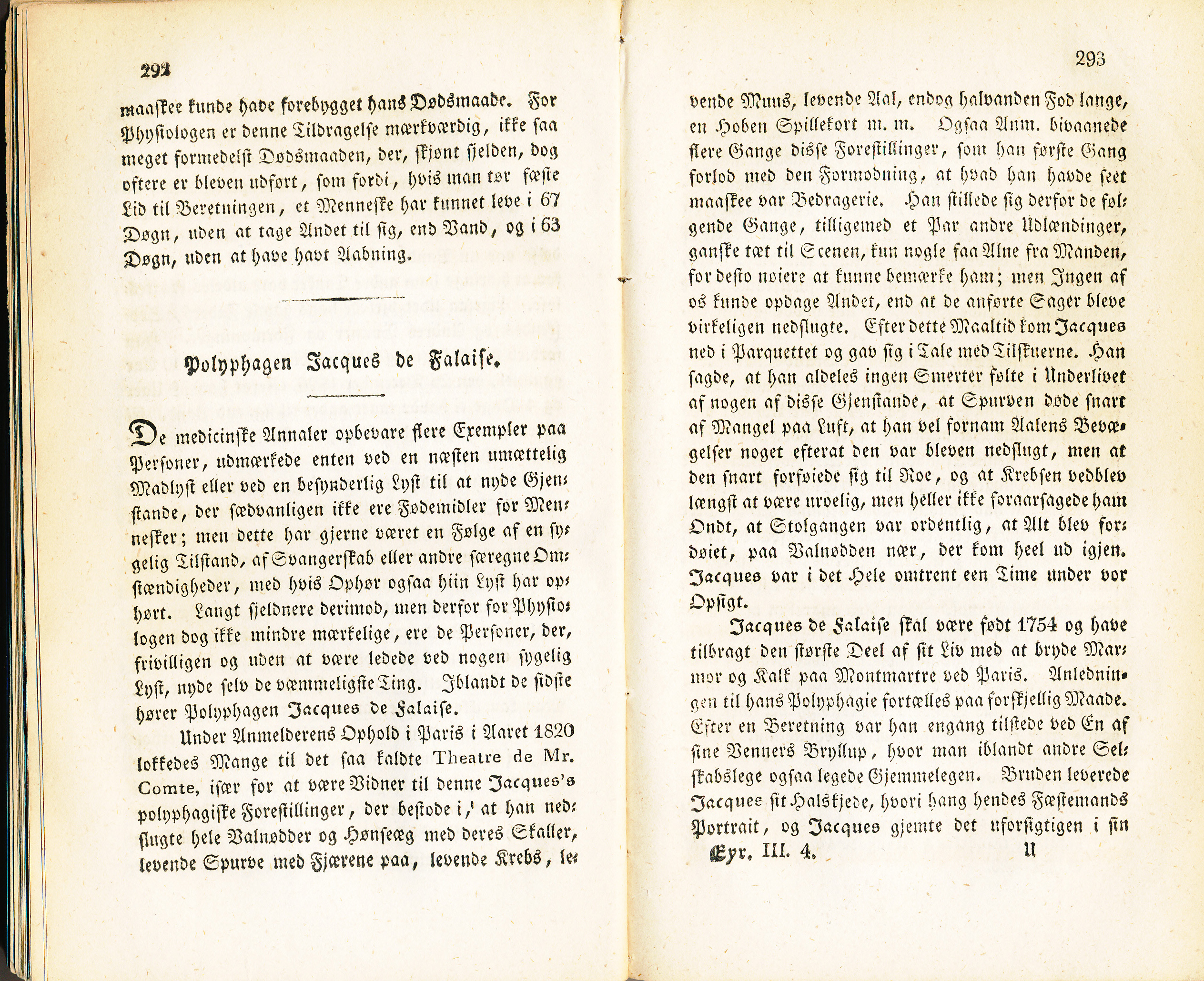 Pages 292-293 of Eyr (1828, n° 3), a medical Norwegian newspaper.